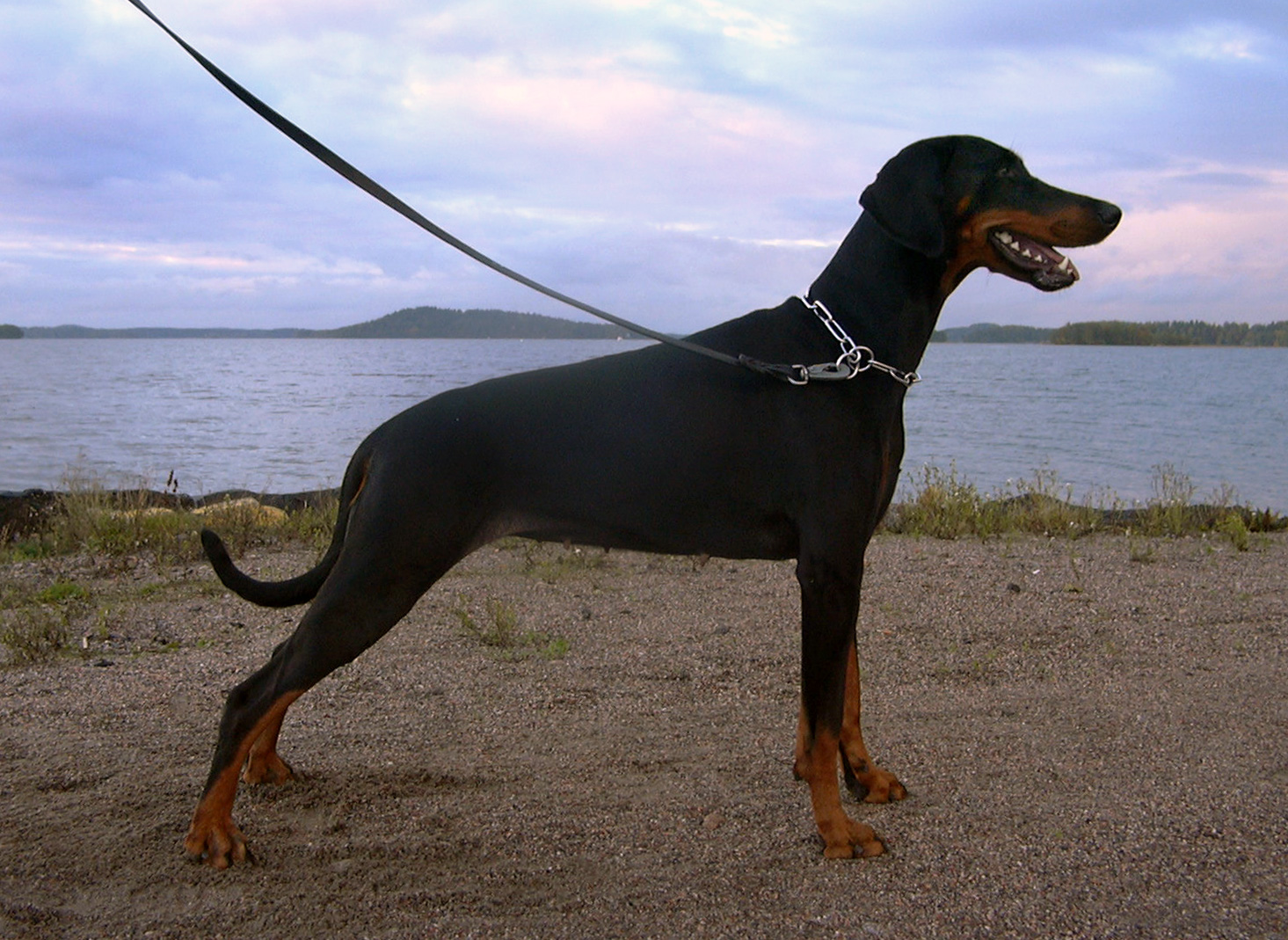 Taken on Oct 8th 2006 Female Dobermann "Dobey's Dazzling Dawn" standing by the lake Vesijärvi.